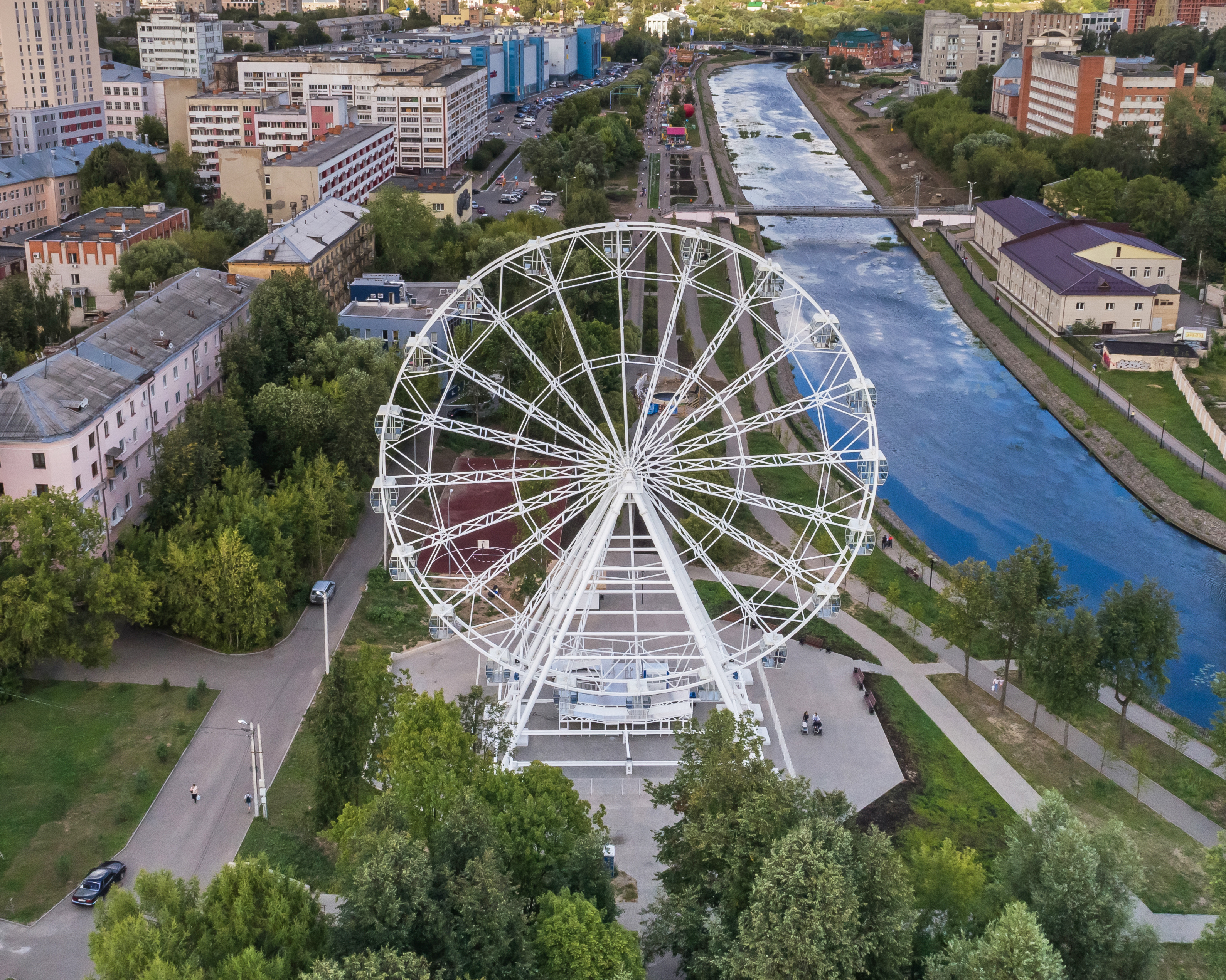 Aerial photo of Ivanovo, Russia